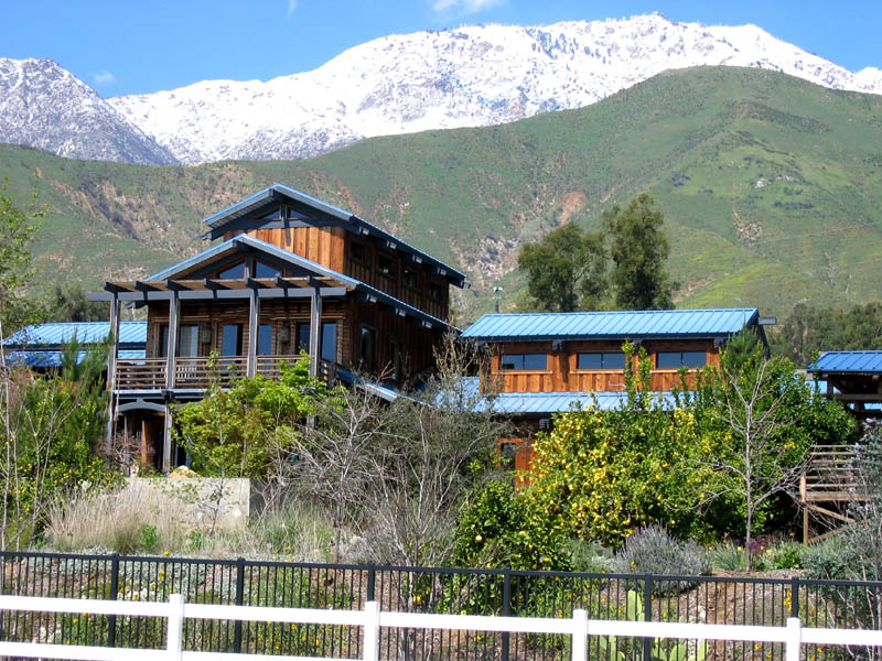 The home of Sam Maloof (1916−2009) — world-renowned woodworker and contemporary furniture craftsman, and MacArthur Fellow. View after the 2000 relocation of the residence-art studio compound to 5131 Carnelian Street in the Alta Loma district of Rancho Cucamonga, California. Built from 1956 through the 1980s, the entire compound was moved 3 miles north, due to being in the right of way of a new extension of the 210−Foothill Freeway.